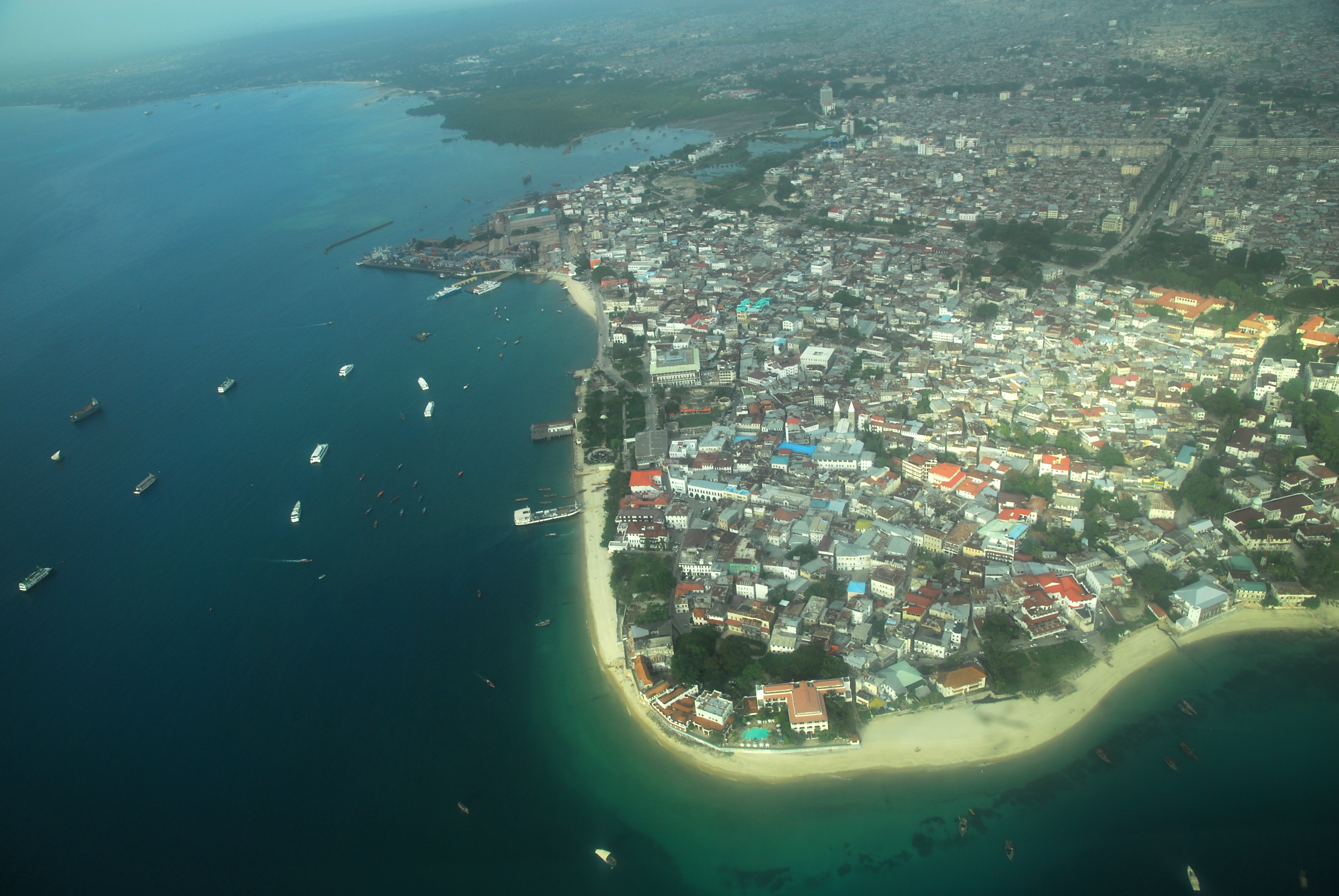 Aerial picture of Stone Town — with parts of Zanzibar City (at top), on Unguja island (Zanzibar Island) in 2012. In the Zanzibar Archipelago of the Western Indian Ocean, off the east coast of Africa in Tanzania.